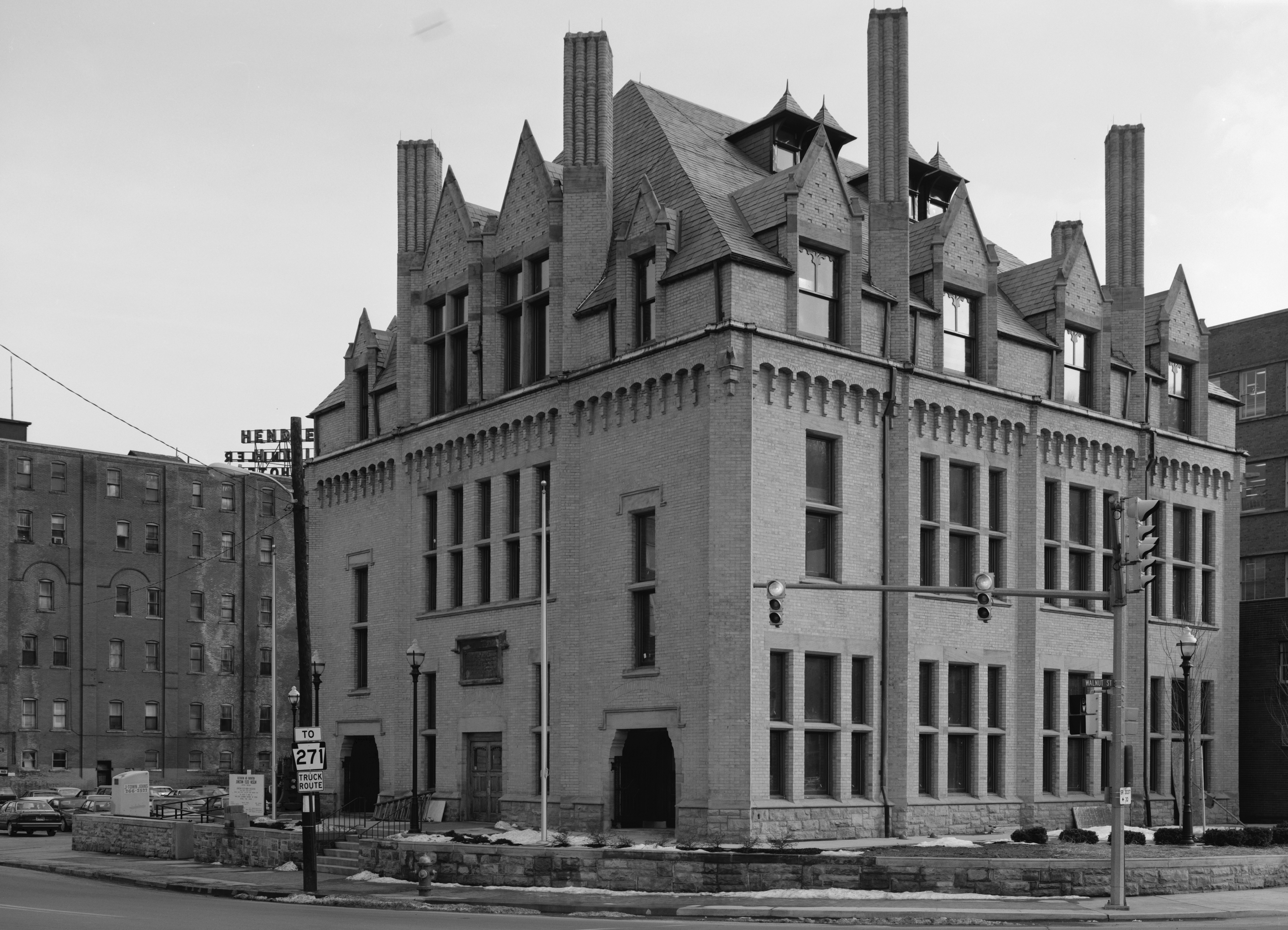 Carnegie Library in Johnstown, commissioned March 9, 1890 after the Great Johnstown Flood the previous year. The fourth library commissioned by Carnegie in America. Opened 1892, the third to open in America. On the NRHP since 1972 at 304 Washington St., Johnstown, Pennsylvania. Now the site of the Johnstown Flood Museum